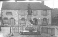 Monument aux Morts